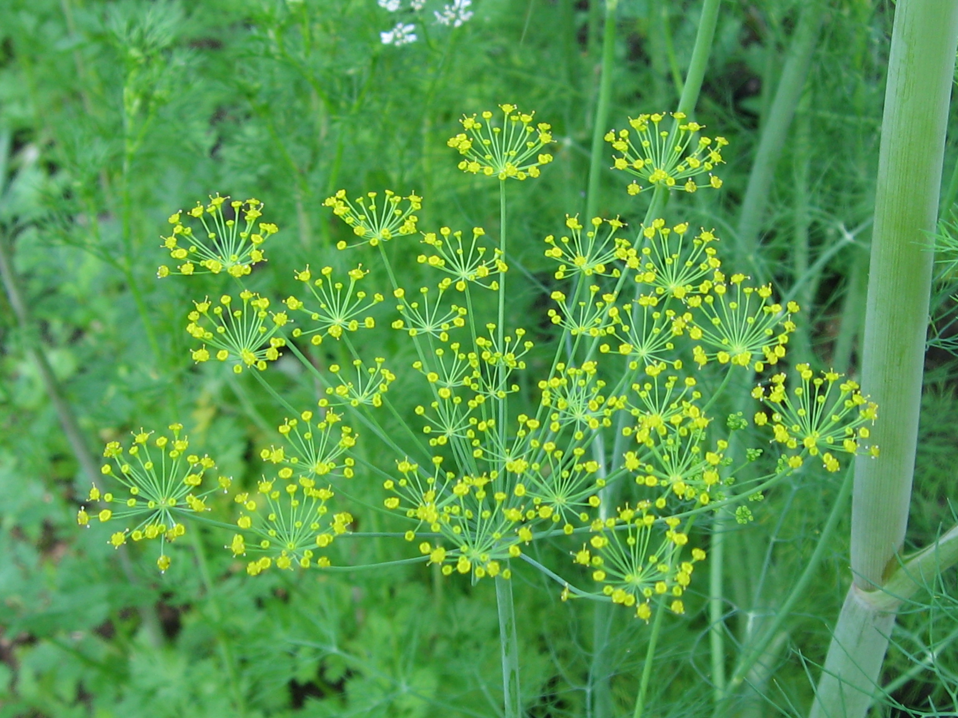 Dill (Anethum graveolens) blooming in August in the Adirondack Park of upstate New York. Own work August, 2006 Meg Bernstein, I would like to contribute this to